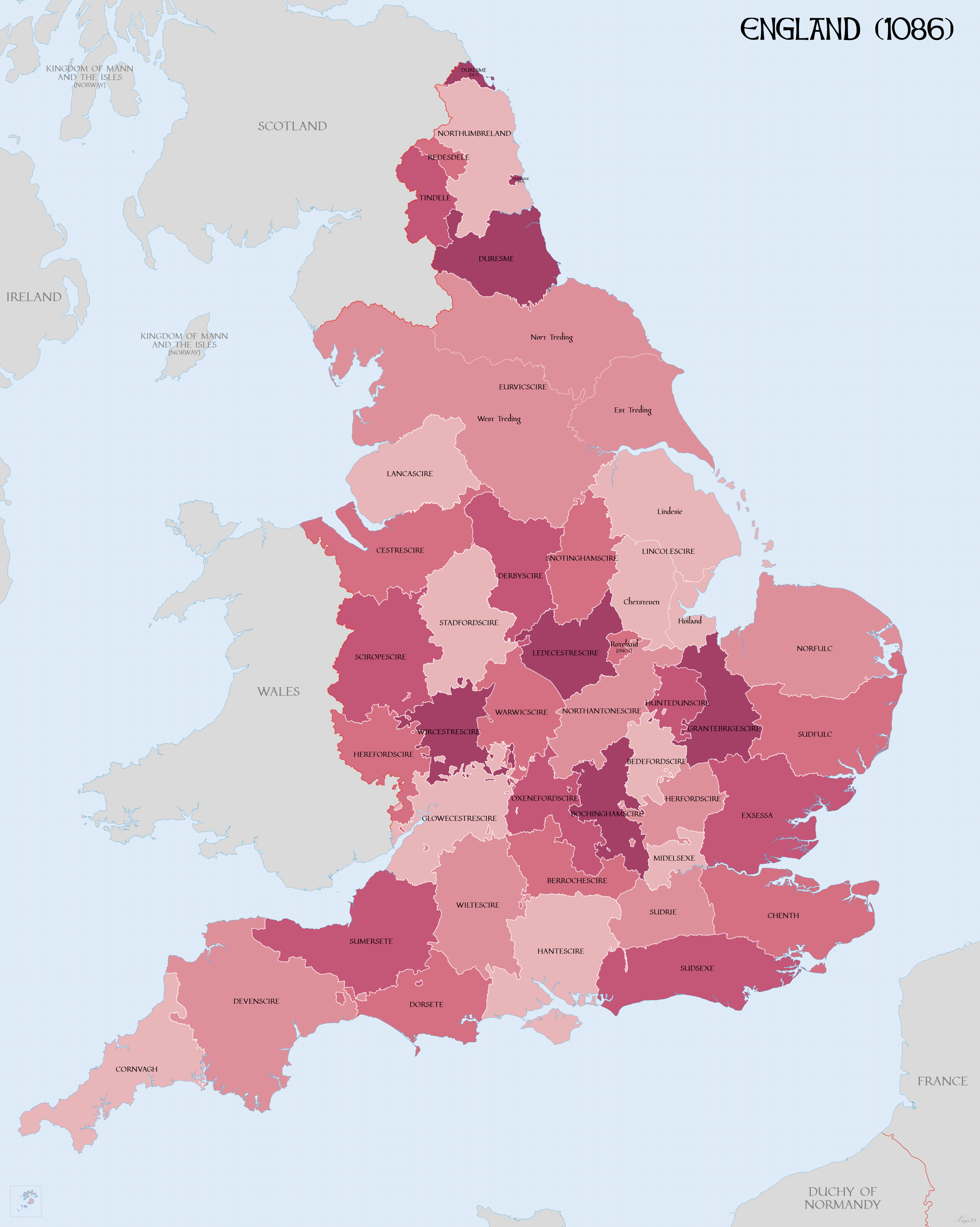 Map of English Counties in 1086. Source data: GIS data from The Landscapes of Governance Projects ( Norman England - A Literary and Historical Atlas of Europe (Bartholemew). Domesday place names (K. Briggs). Vision of Britian ( Open Domesday ( "LINCOLNSHIRE COASTAL VILLAGES AND THE SEA c.1300 - c.1600: ECONOMY AND SOCIETY" Pawley (1984). Sussex: Pevensey Bay in accordance with Kent: Cinque Ports area in accordance with and